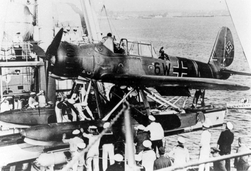 A German Arado Ar 196 floatplane from Seeaufklärungsgruppe 128 (128th Naval Reconnaissance Group) being loaded on the heavy cruiser Admiral Hipper at Gotenhafen (Gdynia, Poland), in 1941.